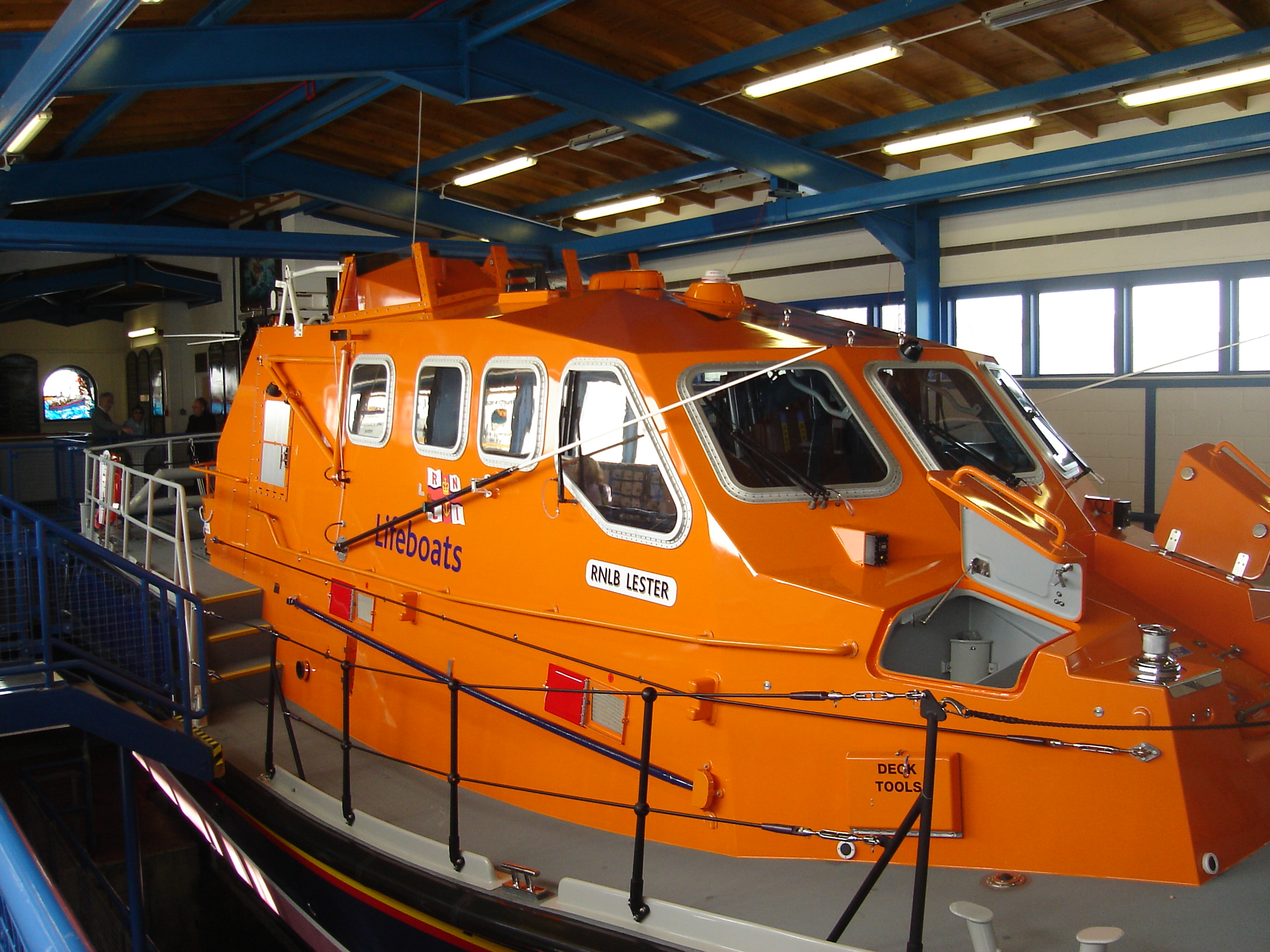 Picture of RNLI Lester at Cromer Lifeboat Station, Norfolk